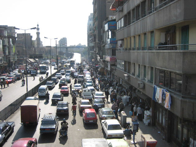 Islamic Cairo